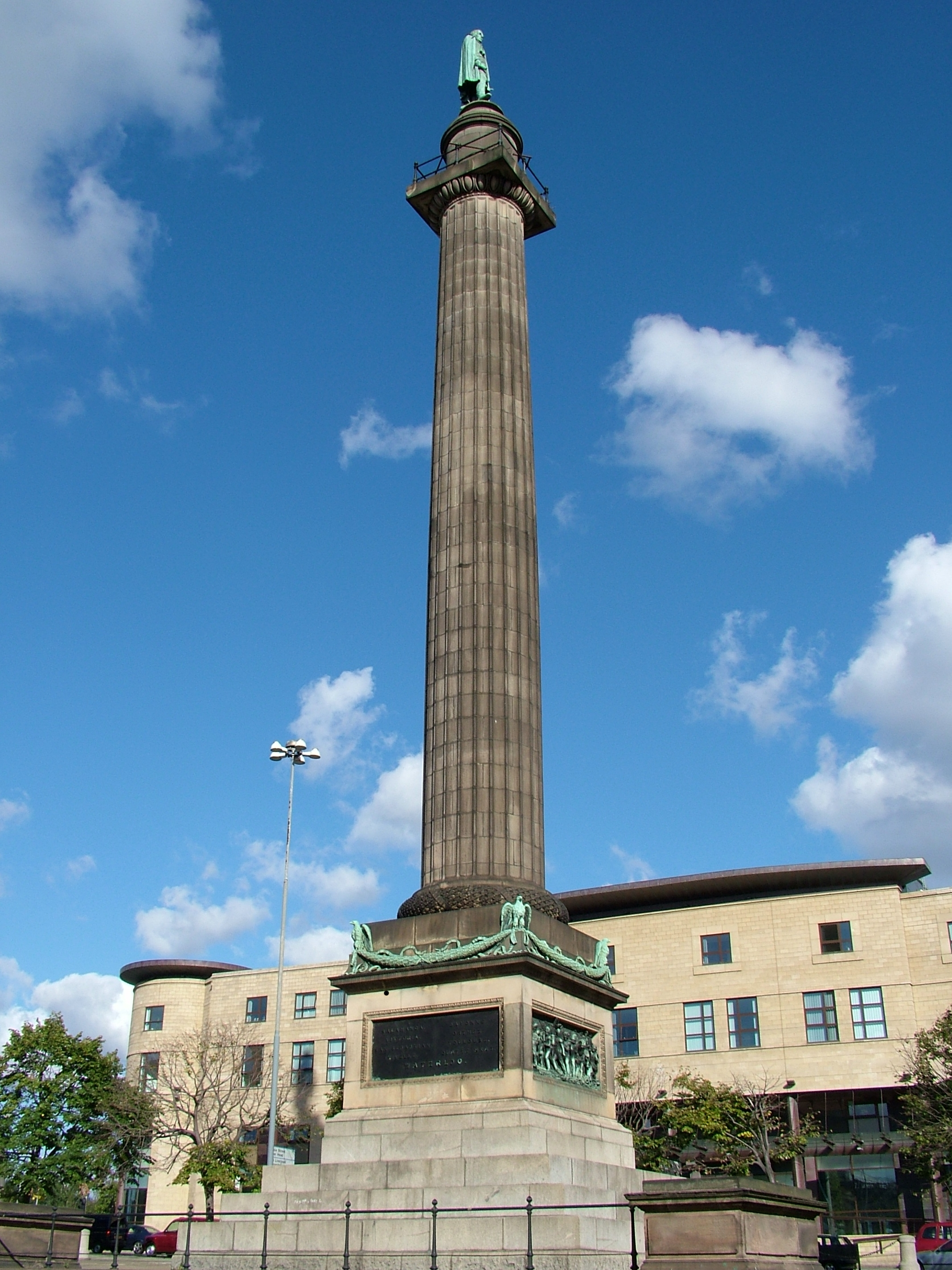 Wellington's Column. Taken by Chris Howells, September 2005.